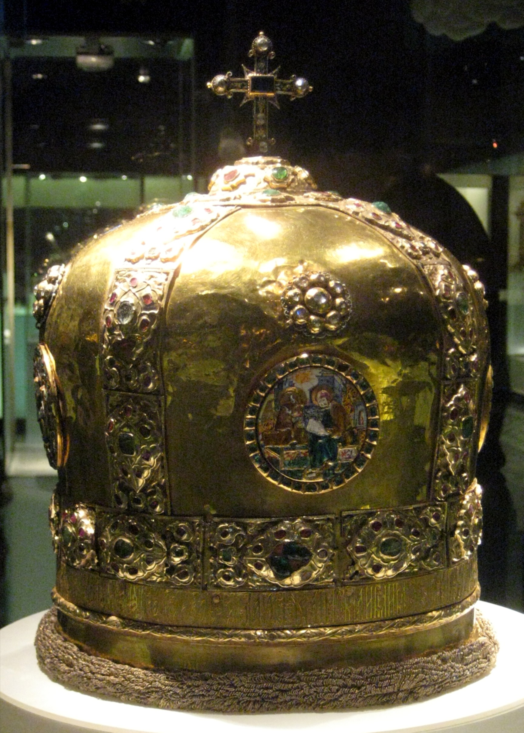 mitre of metropolitan Gedeon Chetvertinskiy. 1685